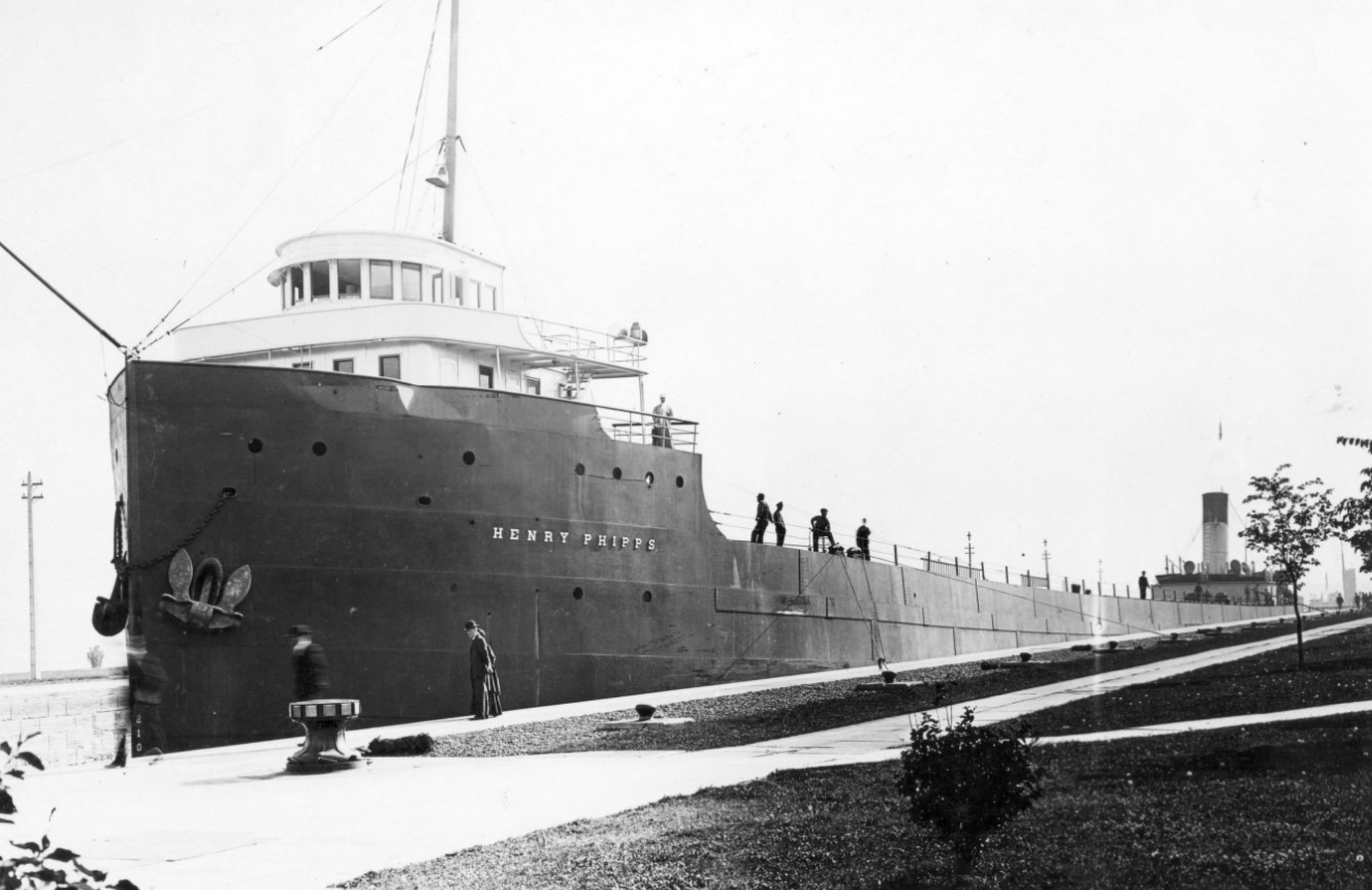 The steamer Henry Phipps in the Soo Locks